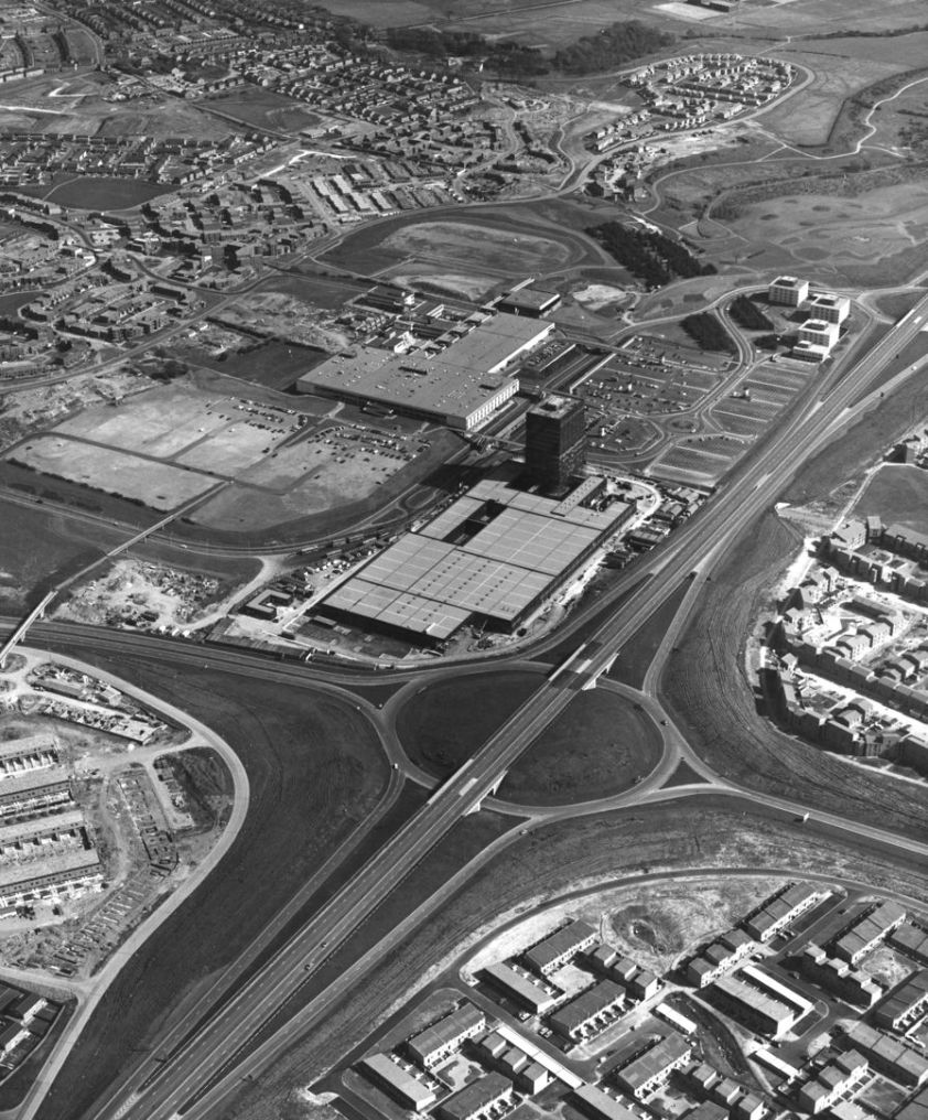 Durham House and the Galleries Shopping Centre take centre stage in this image, with the A182 Washington Highway running north (bottom) to south (top). Blackfell Village is in the bottom right corner. Reference: TWAS: DT.TUR.7.58 (Copyright) We're happy for you to share this digital image within the spirit of The Commons. Please cite 'Tyne & Wear Archives & Museums' when reusing. Certain restrictions on high quality reproductions and commercial use of the original physical version apply though; if you're unsure please . To purchase a hi-res copy please quoting the title and reference number.